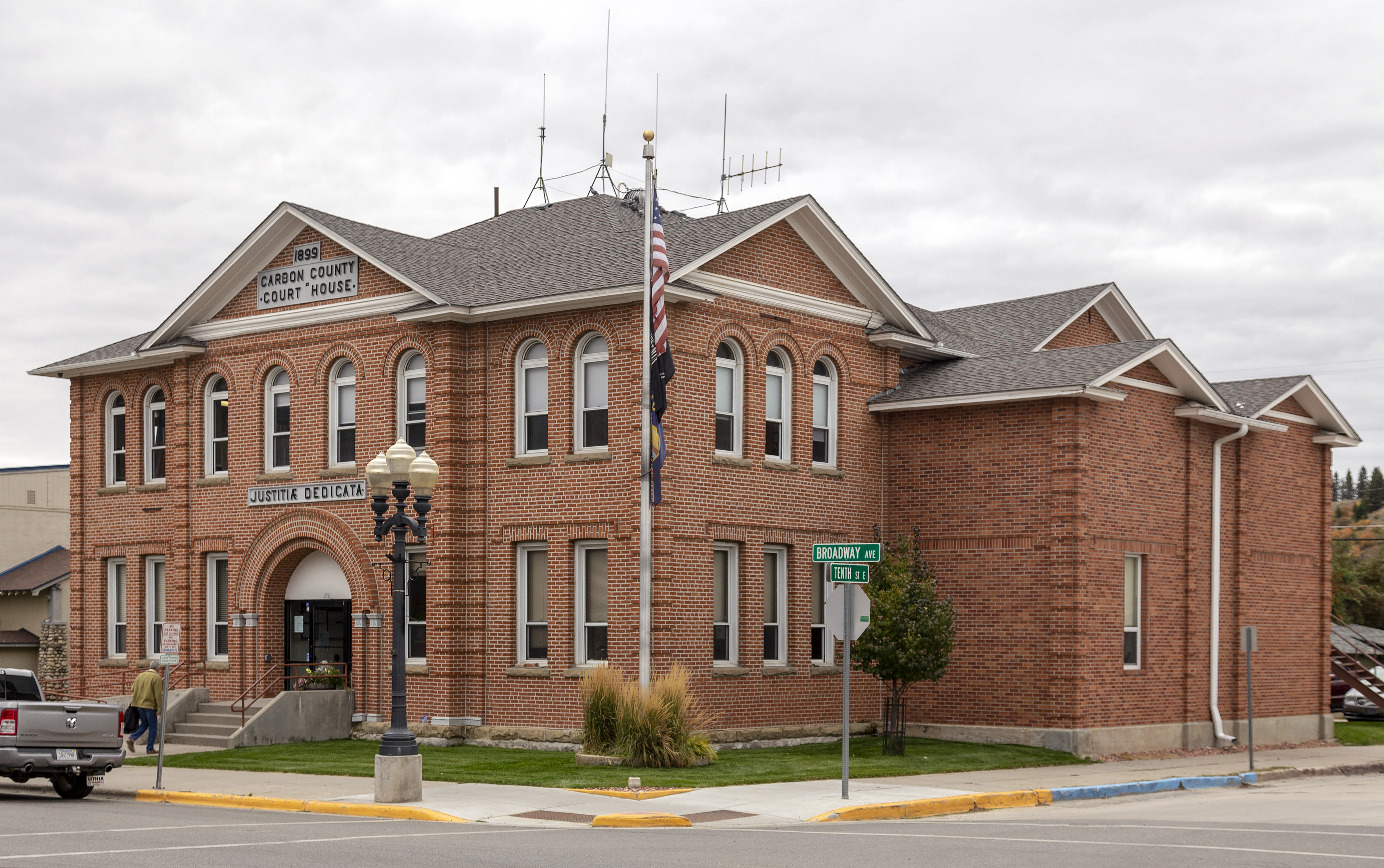 The Carbon County Courthouse, Red Lodge, Montana, USA